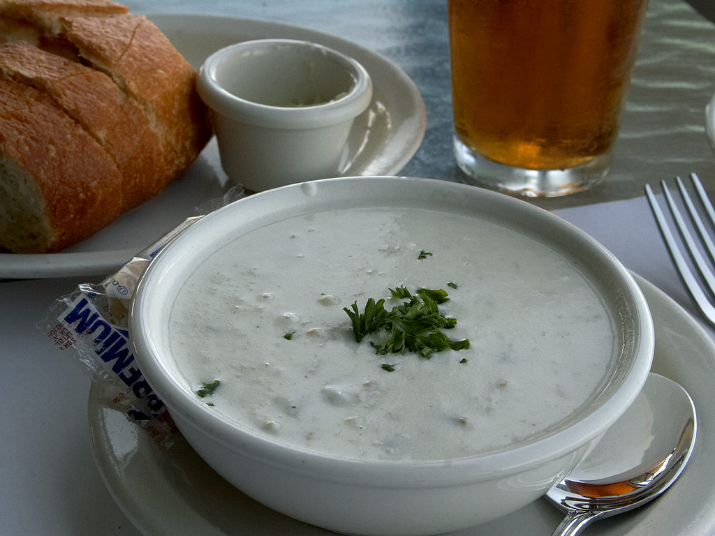 New England clam chowder